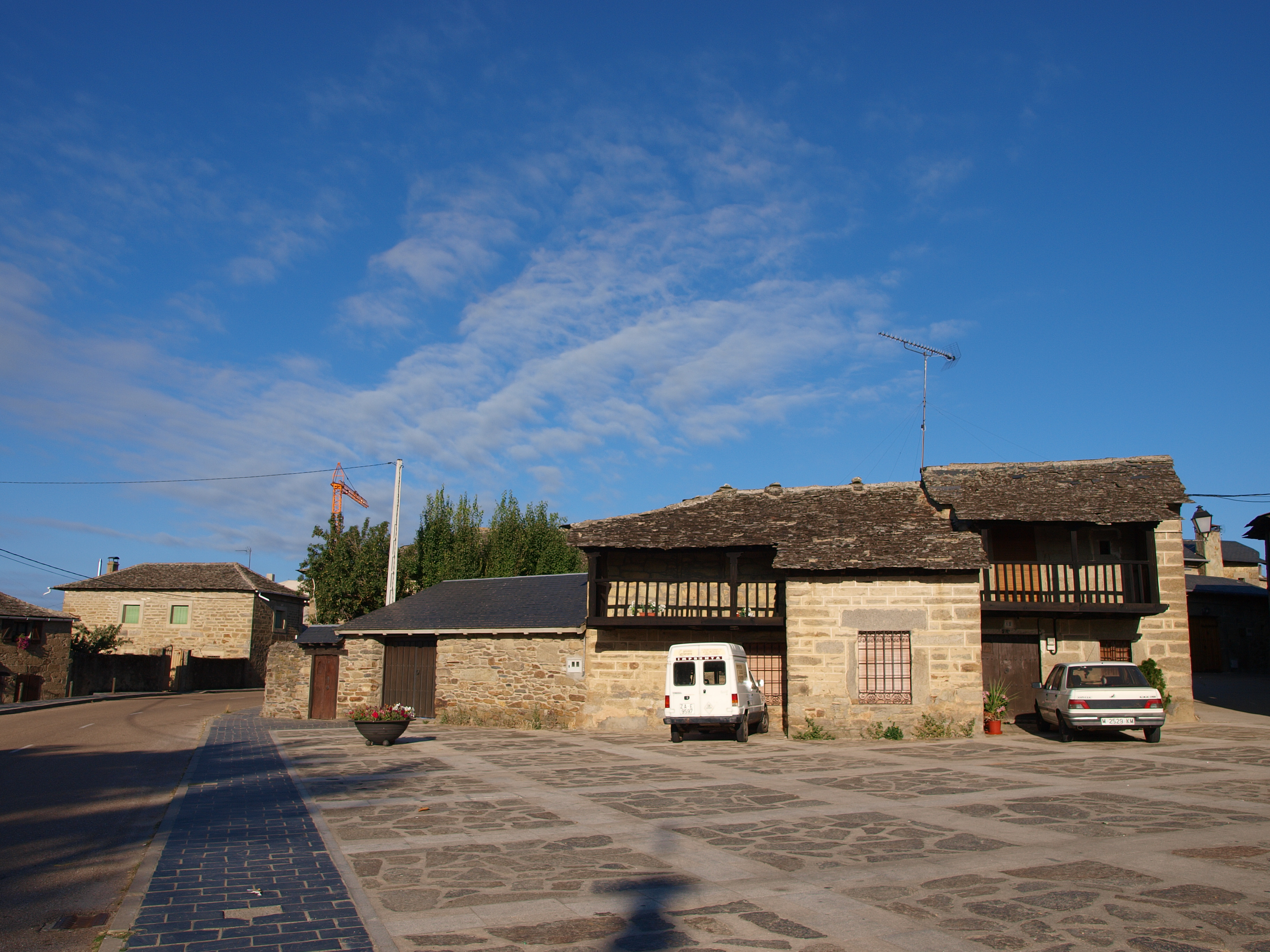 Square in Muelas de los Caballeros, Province of Zamora, Spain